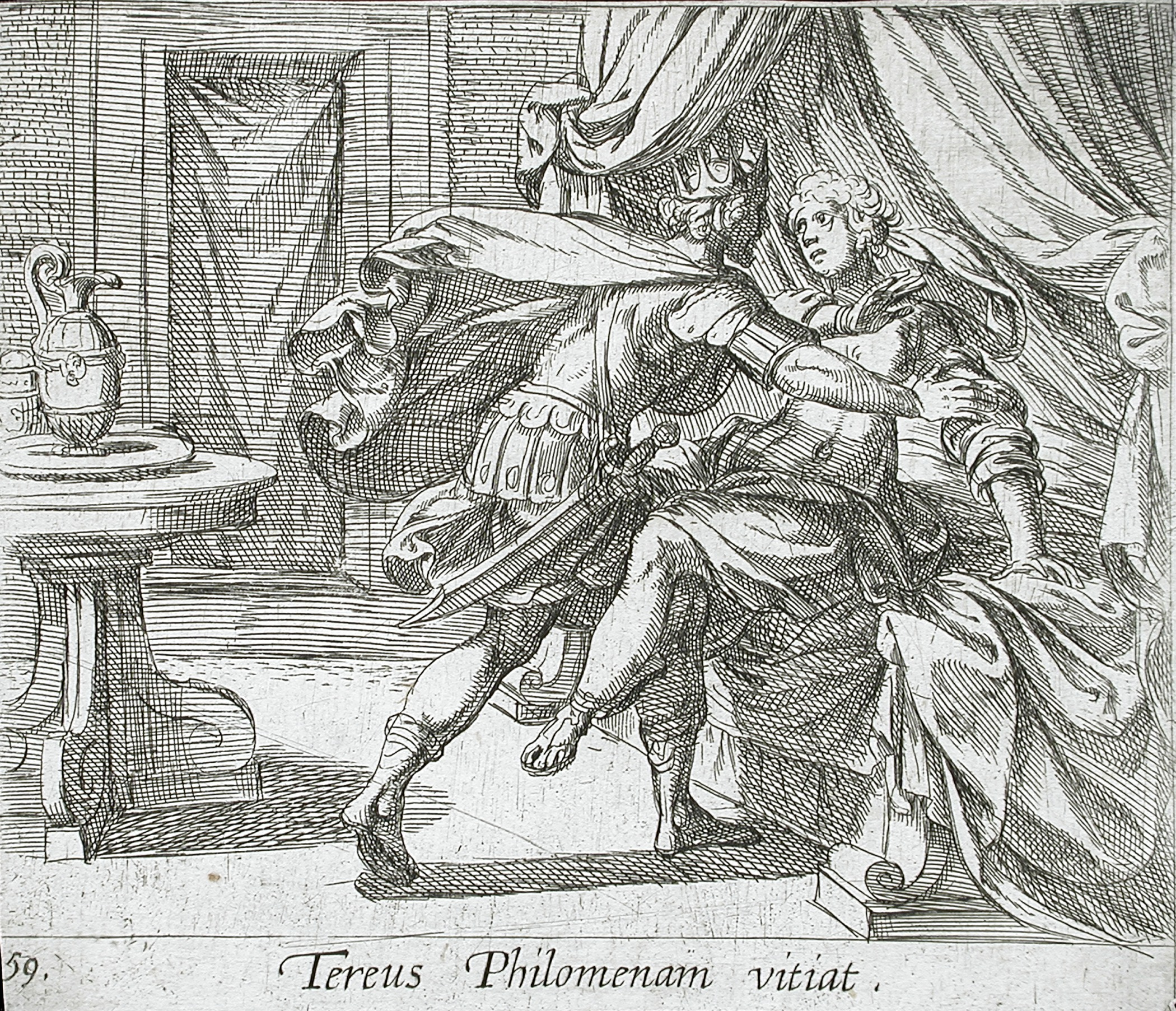 Italy, published 1606 Alternate Title: Tereus Philomenam vitiat Series: The Metamorphoses of Ovid, pl. 59 Edition: Second edition Prints; etchings Etching Los Angeles County Fund (65.37.142) Prints and Drawings